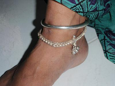 the south indian anklets